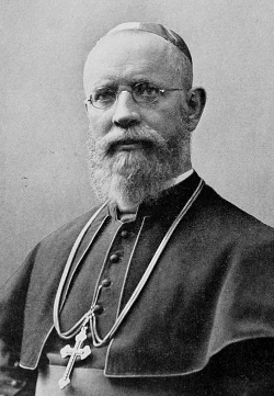 Comboni Missionary Bishop Franz Xaver Geyer (1859-1943)